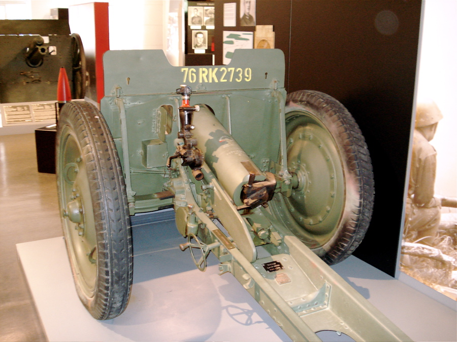 Museum label for Soviet 76.2 mm regimental gun M1927-M1939, displayed in Hämeenlinna Artillery Museum. This improved version of the M1927 gun has rubber wheels better suitable for motor-towing. Photo taken on June 18, 2006. Source: Photo by me, User:Balcer.